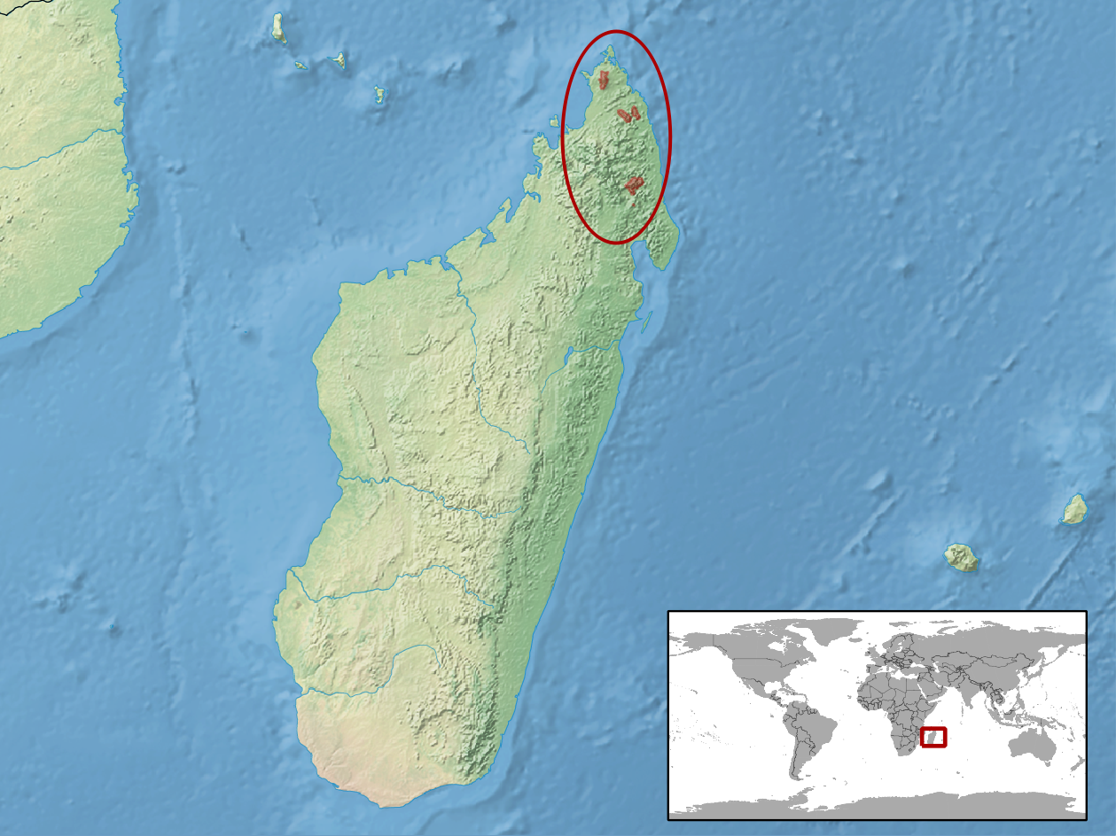 geographic distribution of Uroplatus alluaudi (Native: Madagascar)